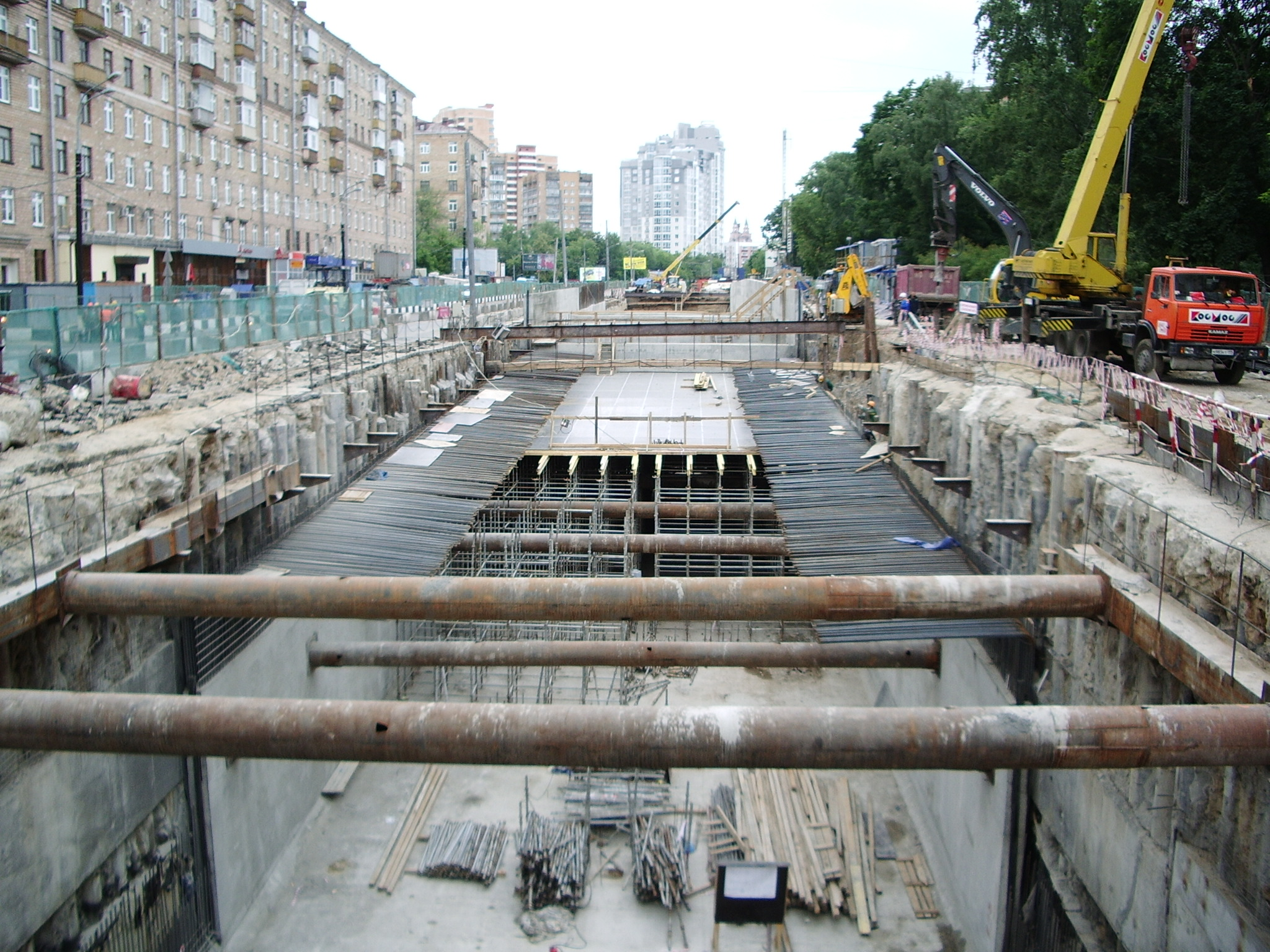 Alabana-Baltijsky tunnel construction on the Alabana street.